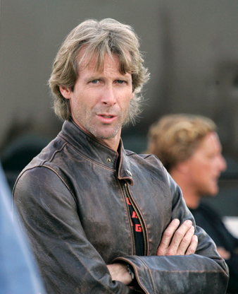 Michael Bay on set filming in Detroit, Michigantrans2